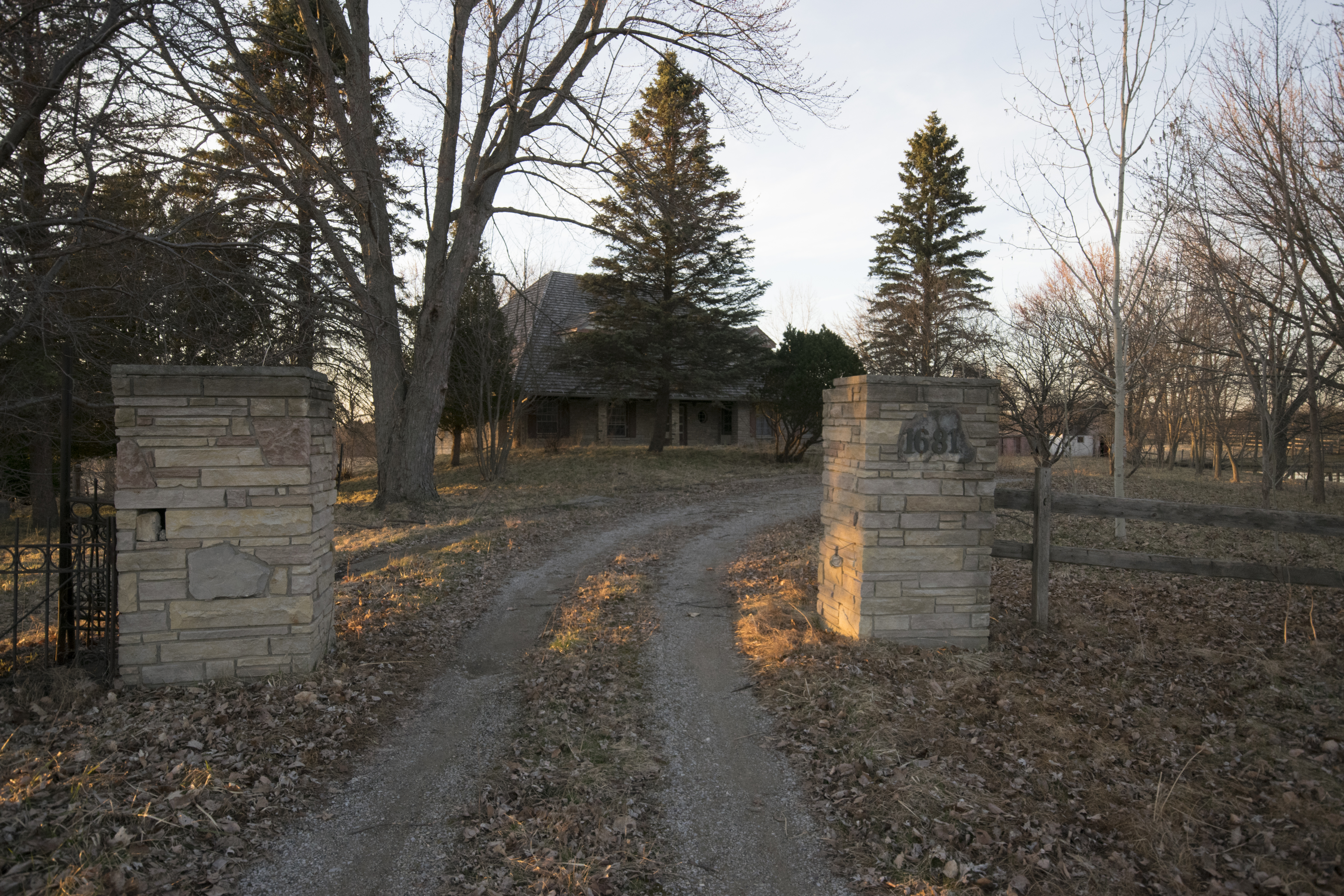 Photo of Martin Weiche's house, now demolished, which had a Hitler shrine inside it.